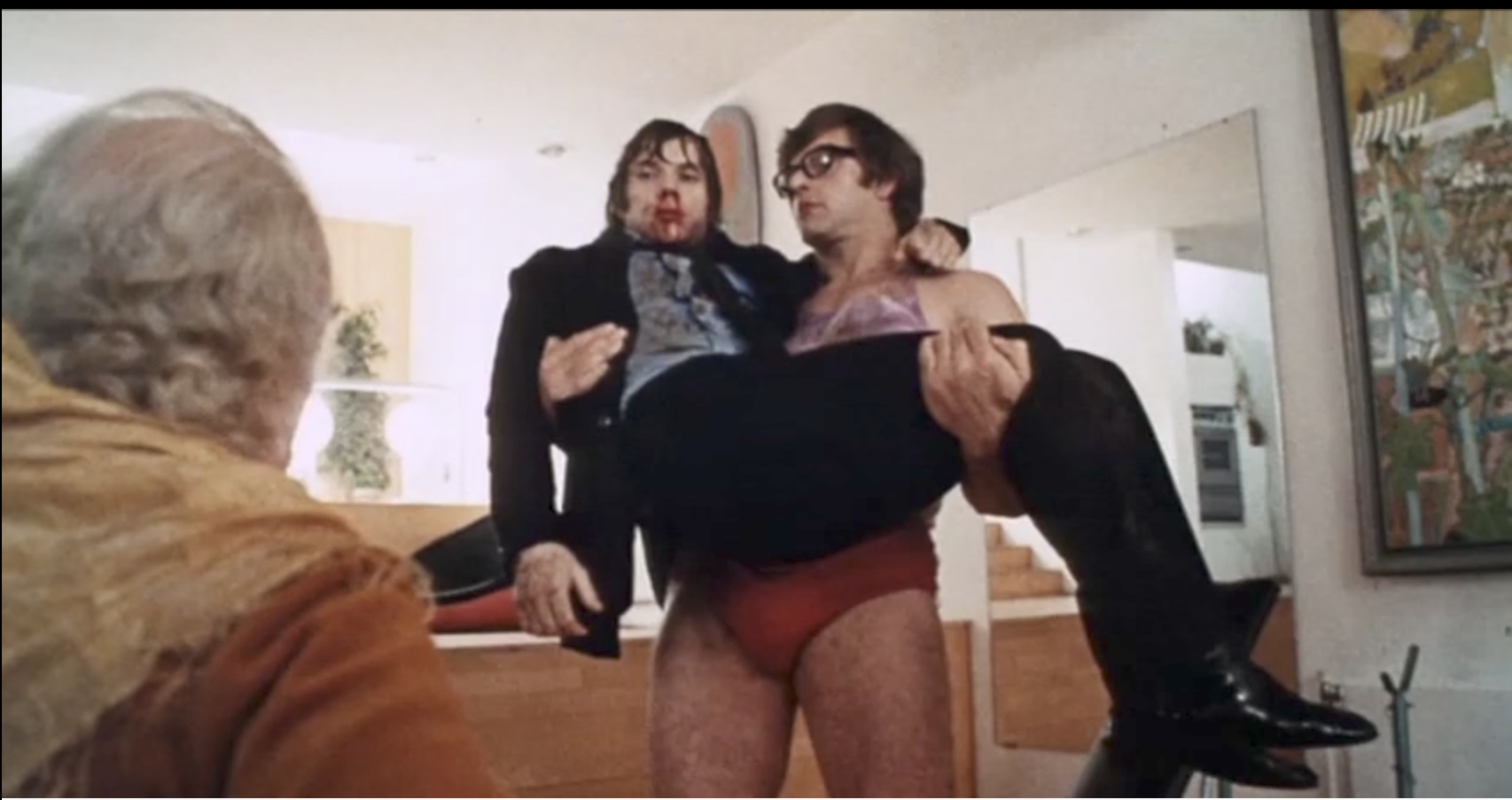 David Prowse with Malcolm McDowell and Patrick McGee in the original trailer of "A Clockwork Orange" (1971).